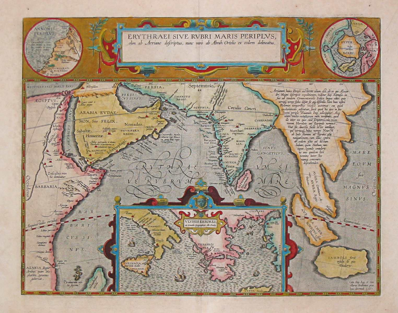 Map by Abraham Ortelius, (1527-1598) for the Periplus Maris Erythraei (Περίπλους τὴς Ἐρυθράς Θαλάσσης "Periplus of the Erythraean Sea"), attributed to Arrian.